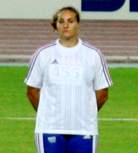 World Athletics Championships 2007 in Osaka - the participants in the women's discus throwing final: Mélina Robert-Michon